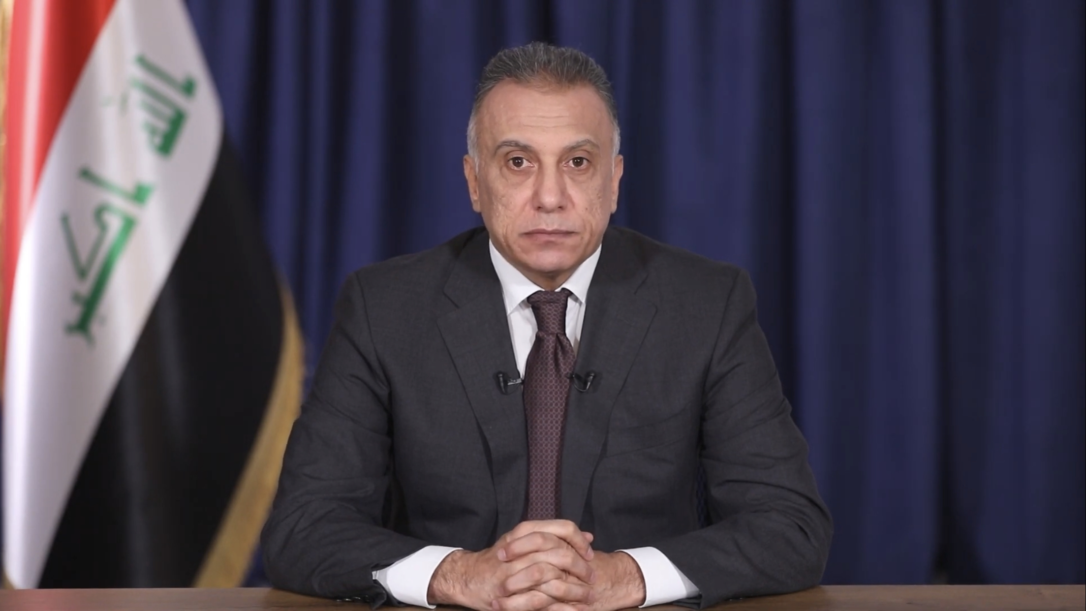 Mustafa al-Kadhimi